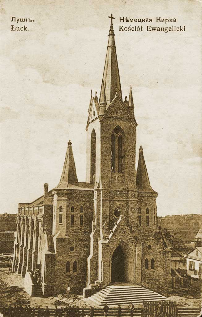 ЛуцькКірхаПошт